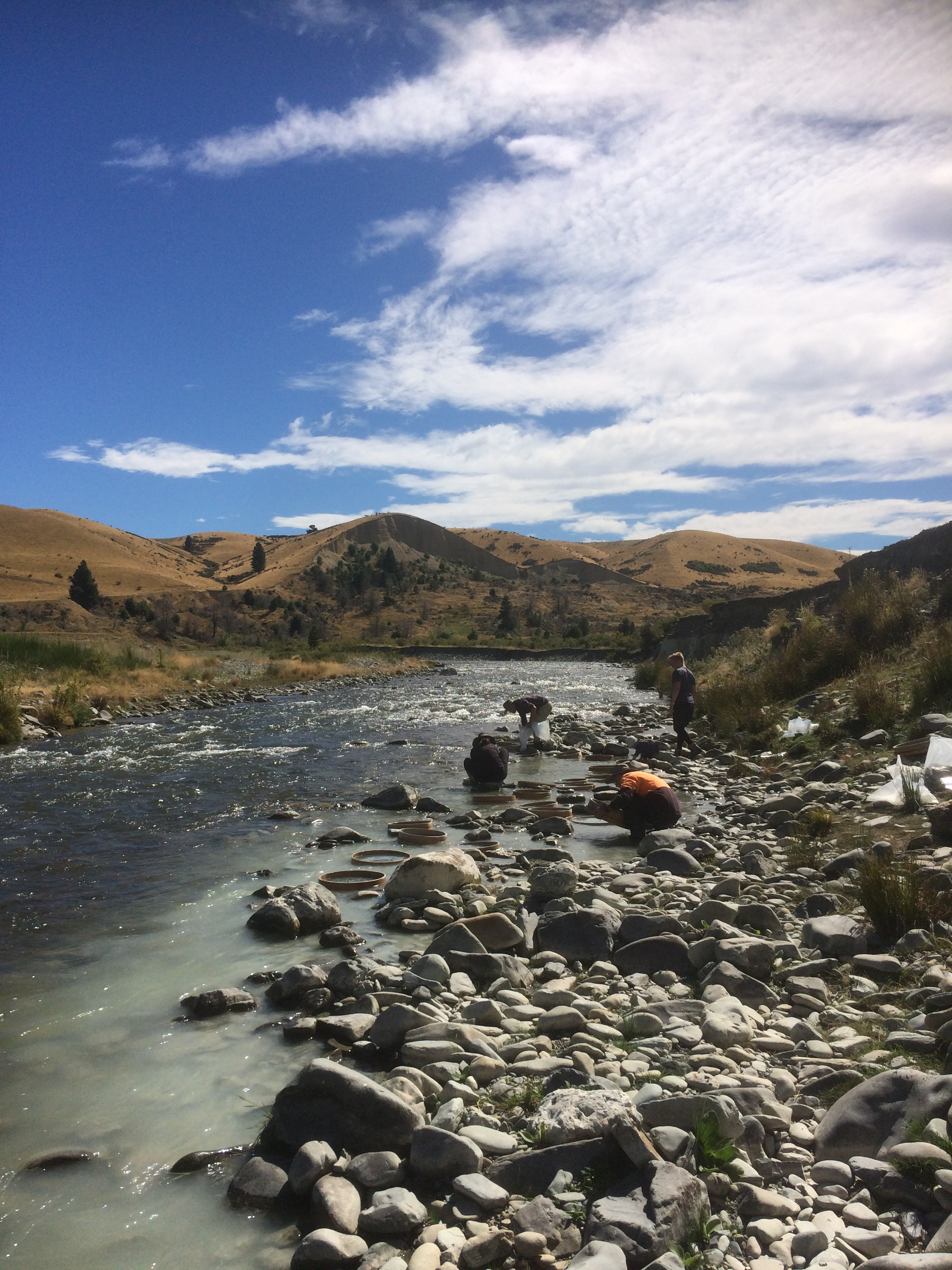 Saint Bathans Miocene fossil site on the banks of the Manuherikia River. Palaeontologists are sieving 16–19 million year old fossils from ancient lake sediments in the river.